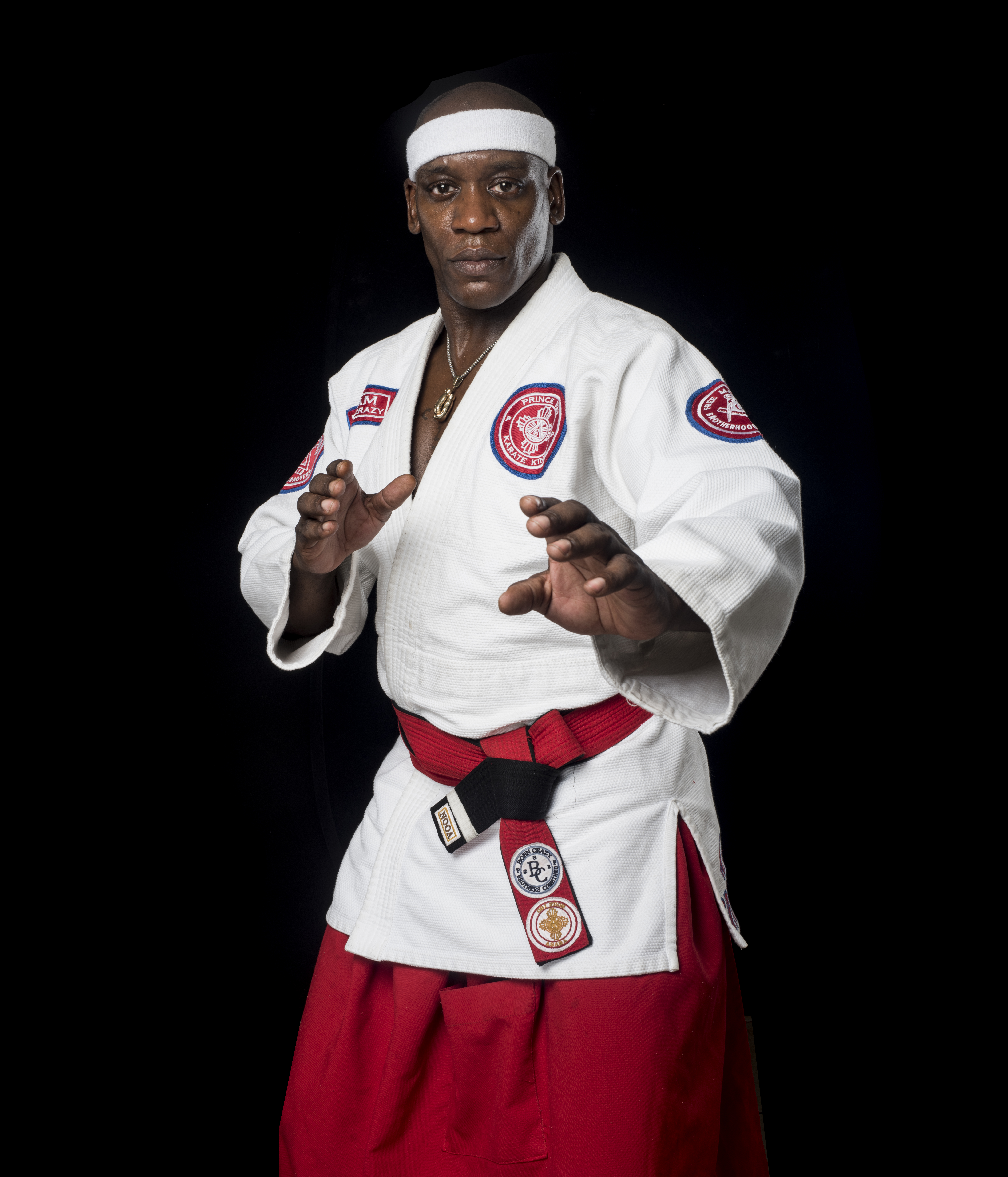 Karate Dress with Grandmaster belt